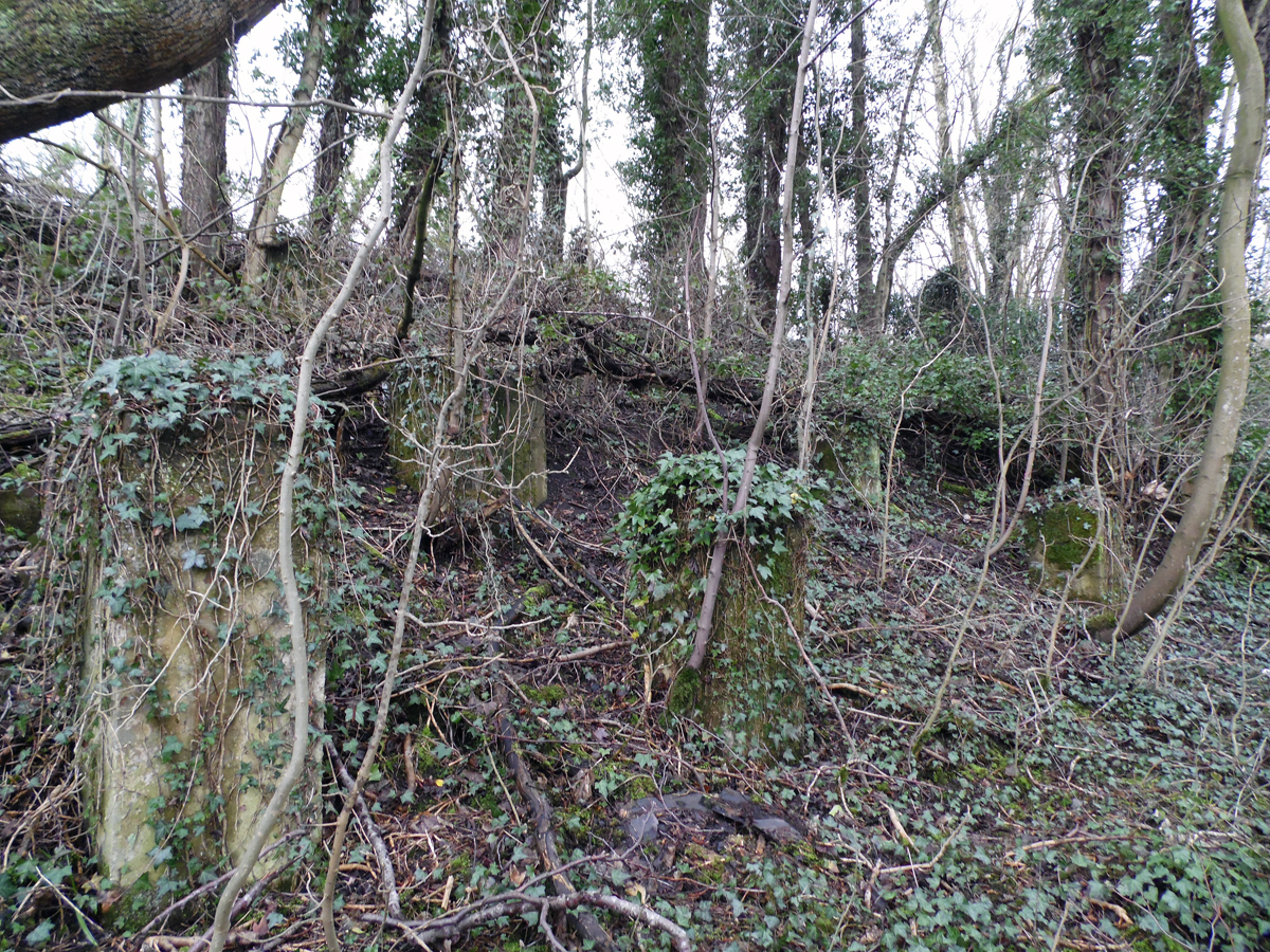 Whilst the main building and platform has long since been removed, if you go down the slope at either side, you will find the support pillars for them. This photo depicts the station building support pillars that I took whilst exploring the site.